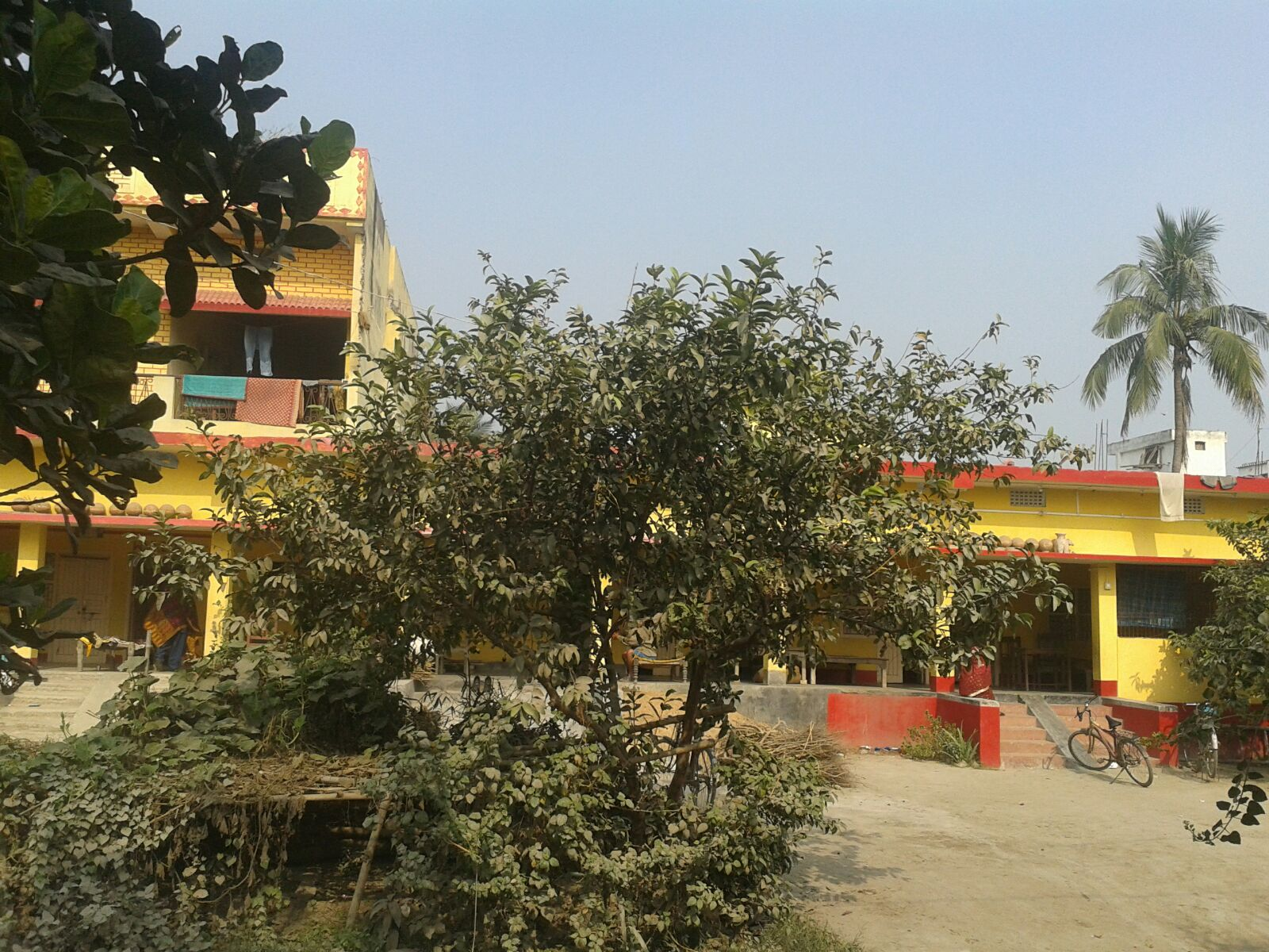 Anganwadi Kendr Loma